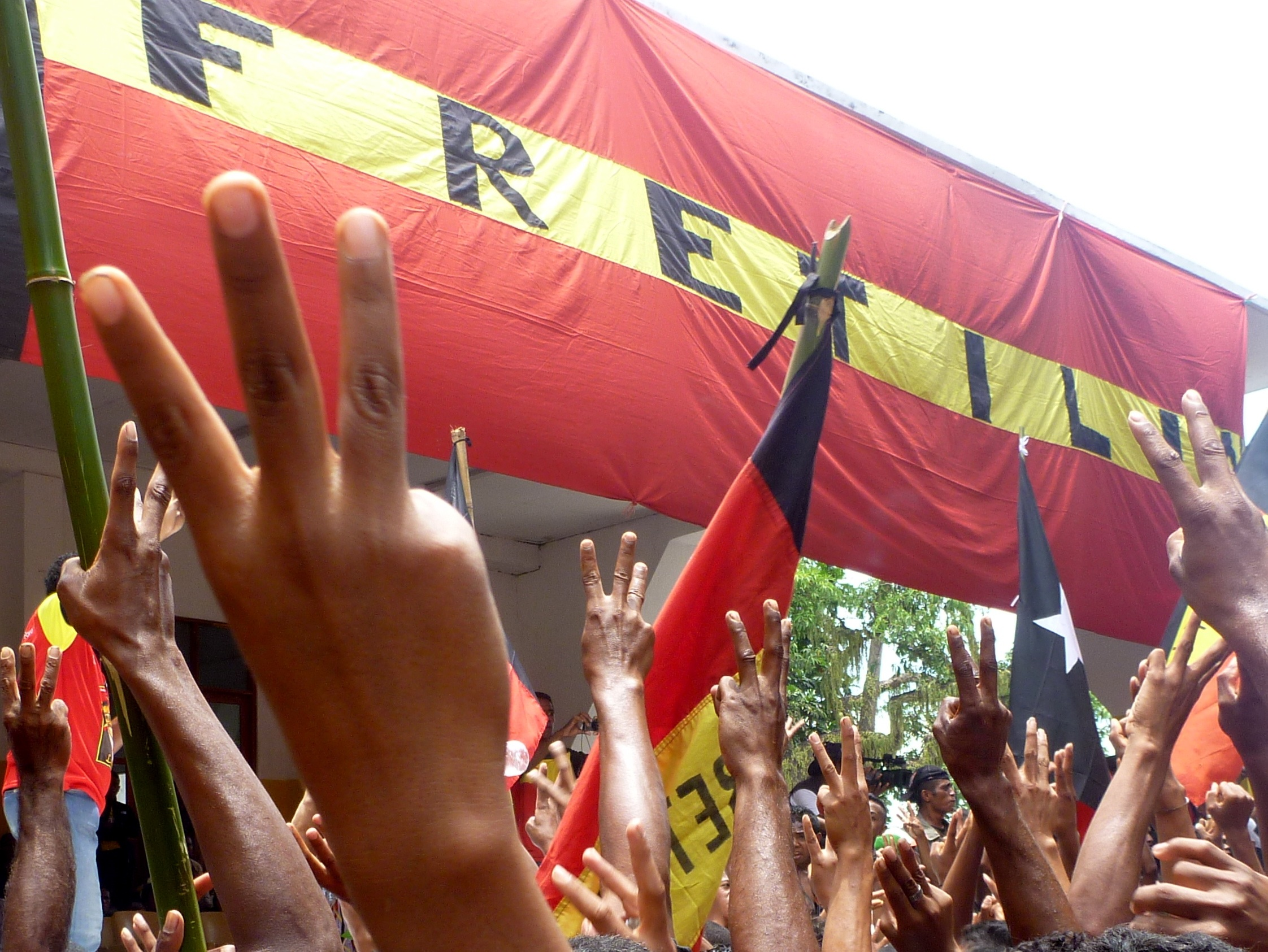 A political rally in support of Lu Olo (Baucau, Timor Leste, March 2012). Lu Olo, the nom de guerre of Francisco Guterres, president of the Fretilin party, is one of the candidates in the third presidential elections in Timor Leste. President of the Fretilin party, Lu Olo lived in the mountains of Timor Leste for 24 years fighting for independence from Indonesia.